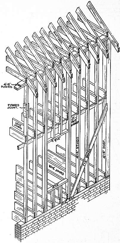 Balloon Frame, Encyclopædia Britannica 1911